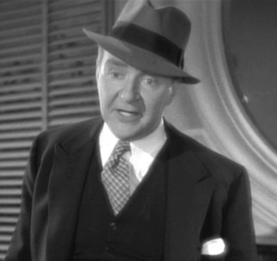 Edward Gargan in My Man Godfrey (1936) - cropped screenshot